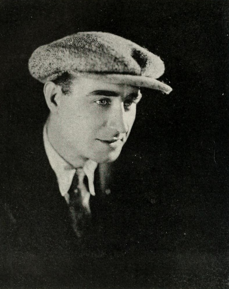 Frank Lloyd (1886-1960), British-American actor, film producer and director